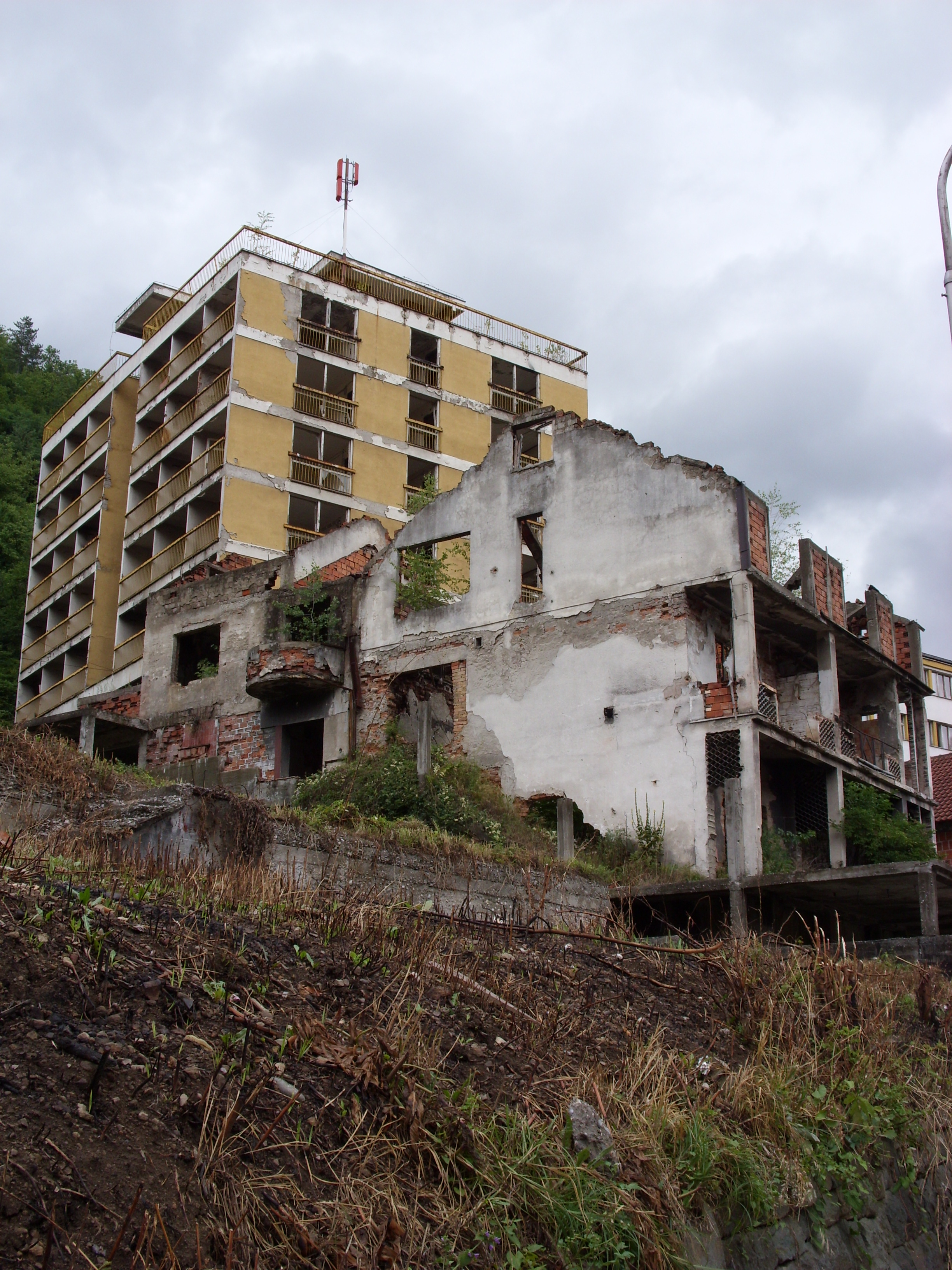 Damaged houses in Srebrenica, East Bosnia.